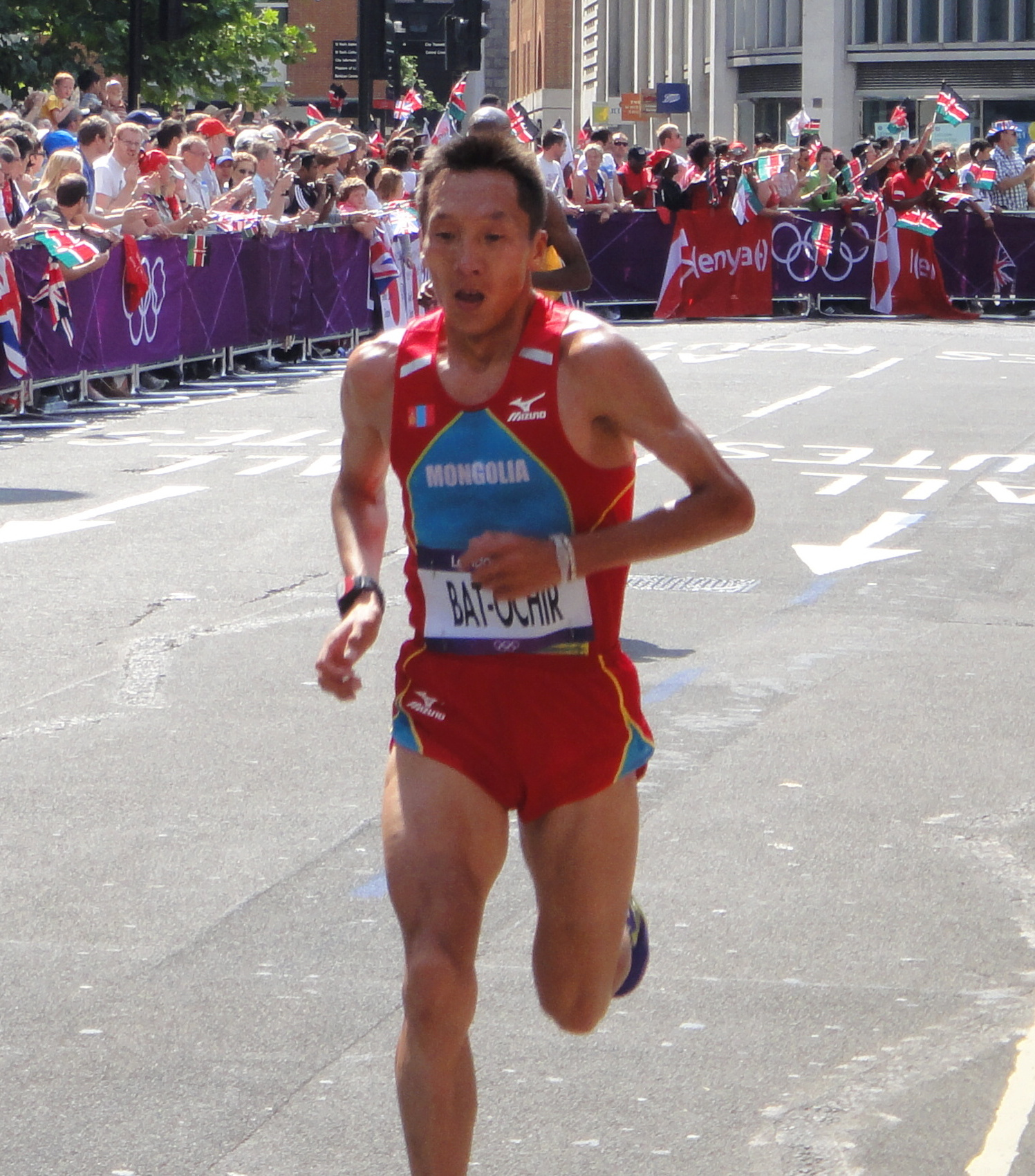 Ser-Od Bat-Ochir (Mongolia) - London 2012 Men's Marathon